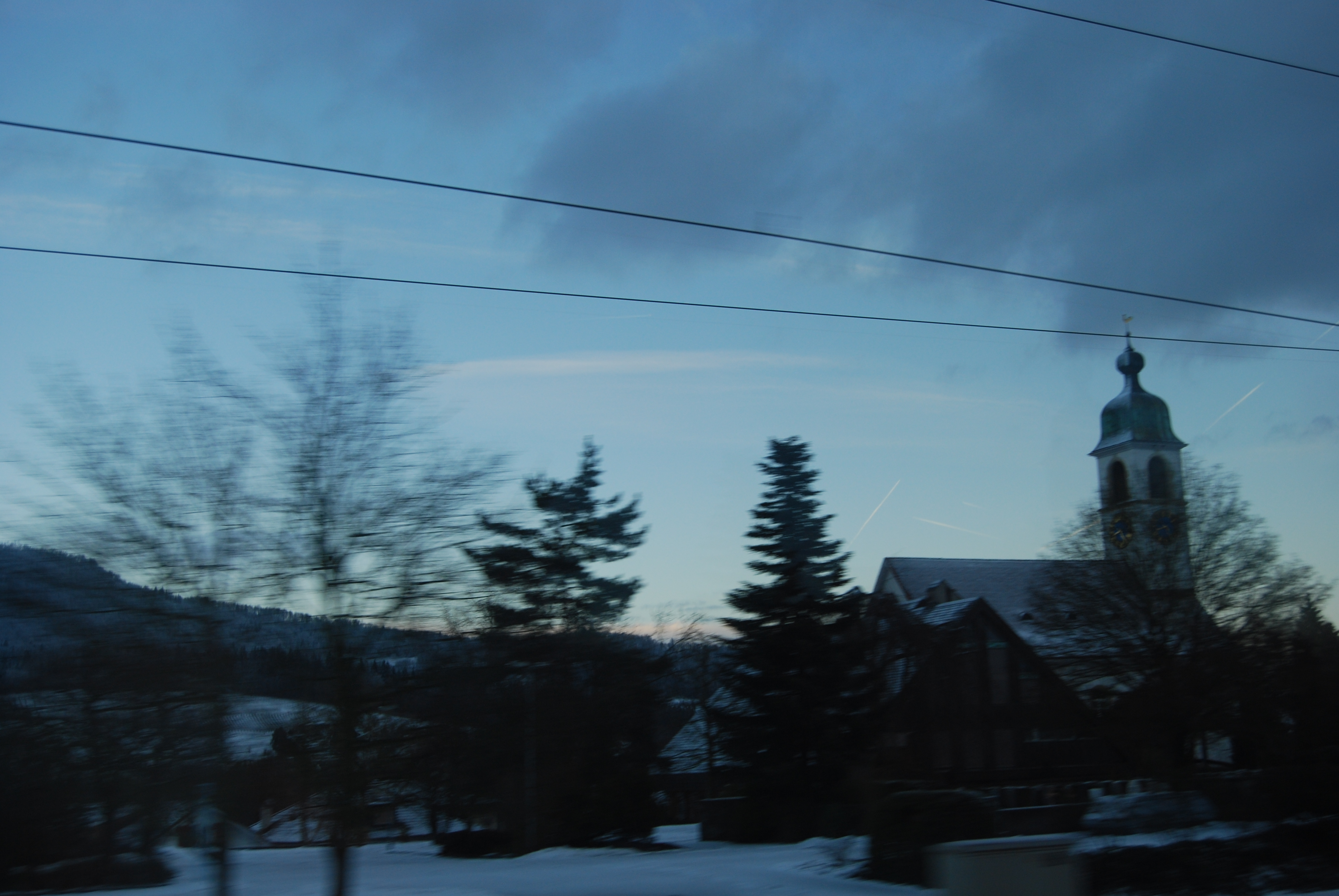 Church of Rupperswil seen from the passing train, canton of Aargau, SwitzerlandEsperanto: Preĝejo de Rupperswil vidita el la veturanta trajno, Kantono Argovio, Svislando